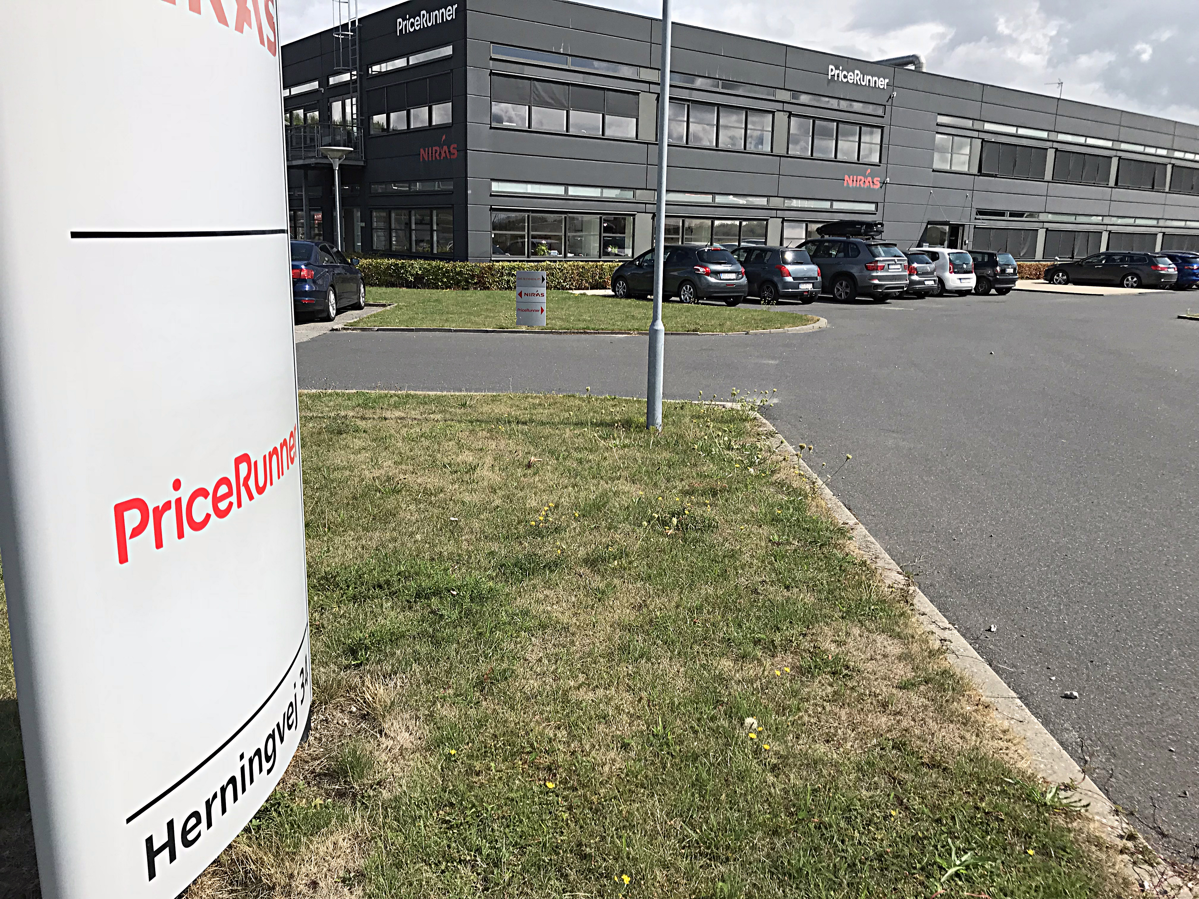 PriceRunners kontor i Nykøbing Falster